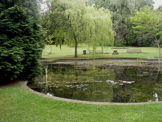 Altrincham, Denzell Gardens Gardens established by Victorian industrialist Samuel Lamb, now owned by Trafford Council.